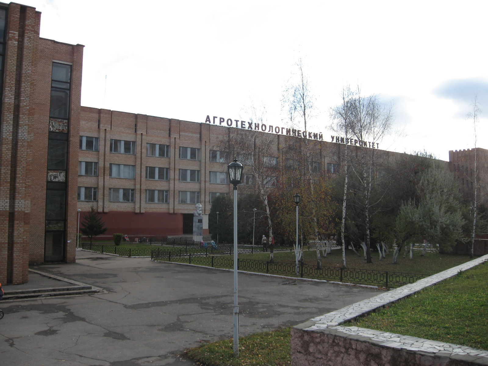 Ryazan state agriculture university